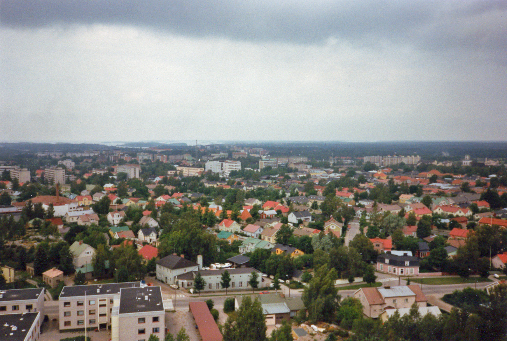 Rauma, Finland pictured from water tower in 1989